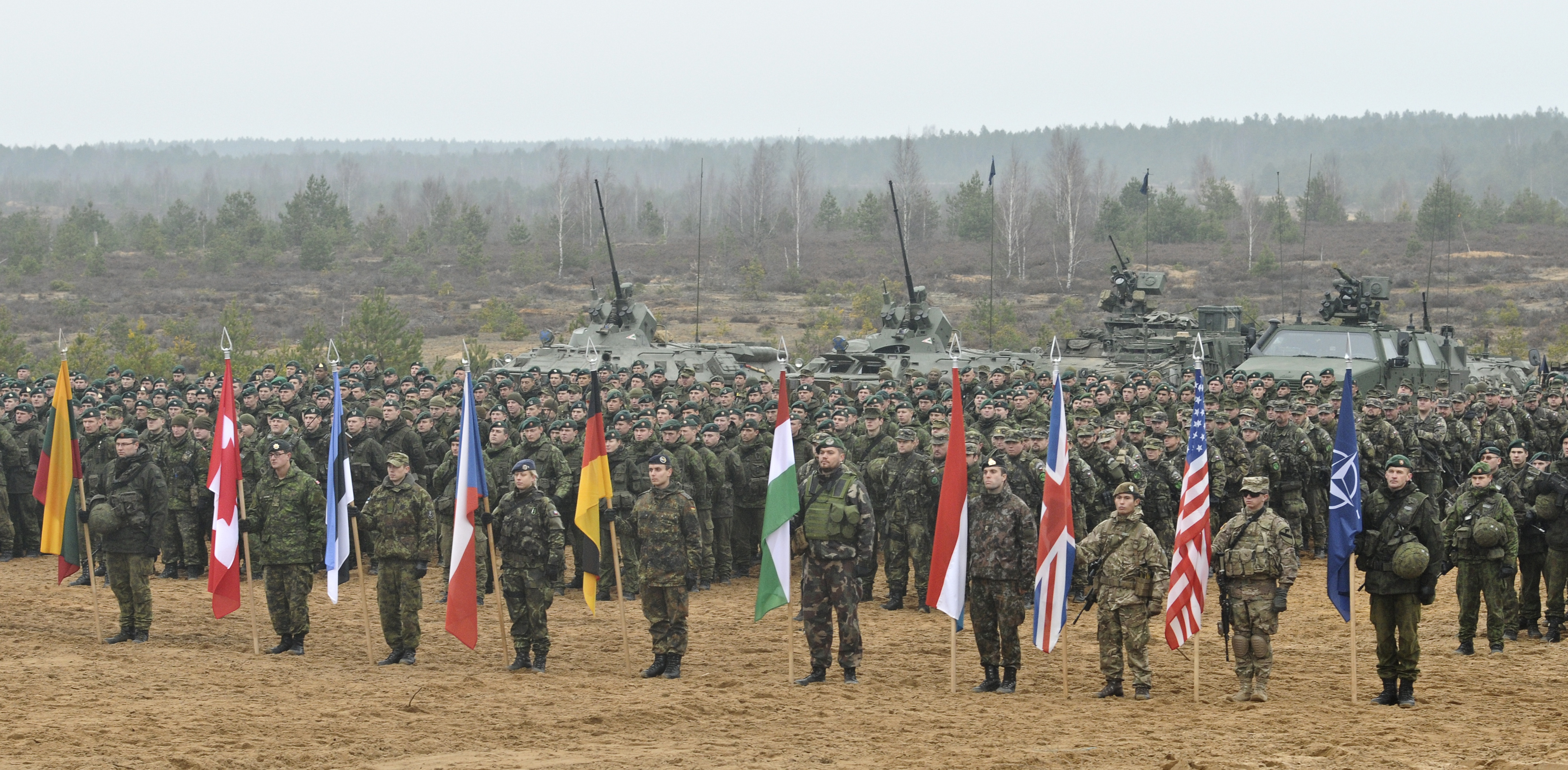 Soldiers from nine NATO member countries take part in the closing ceremony for the multinational exercise Iron Sword 2014 in Pabrade, Lithuania, Nov. 13. Lithuania served as host for the exercise, which will also certify its forces to serve as part of the NATO Response Force over the next two years. Iron Sword 2014 involved more than 2,500 personnel from the U.S., Lithuania, Canada, Estonia, the Czech Republic, Germany, Hungary, Luxembourg, and U.K. It also takes place as part of the U.S. Army Europe-led Atlantic Resolve, a multinational, combined-arms exercise involving the 1st Brigade Combat Team, 1st Cavalry Division, and host nations across Estonia, Latvia, Lithuania and Poland aimed at enhancing interoperability, strengthening relationships among allied militaries, contributing to regional stability and demonstrating U.S. commitment to NATO. (U.S. Army photo by Sgt. David Turner, 214th Mobile Public Affairs Detachment).